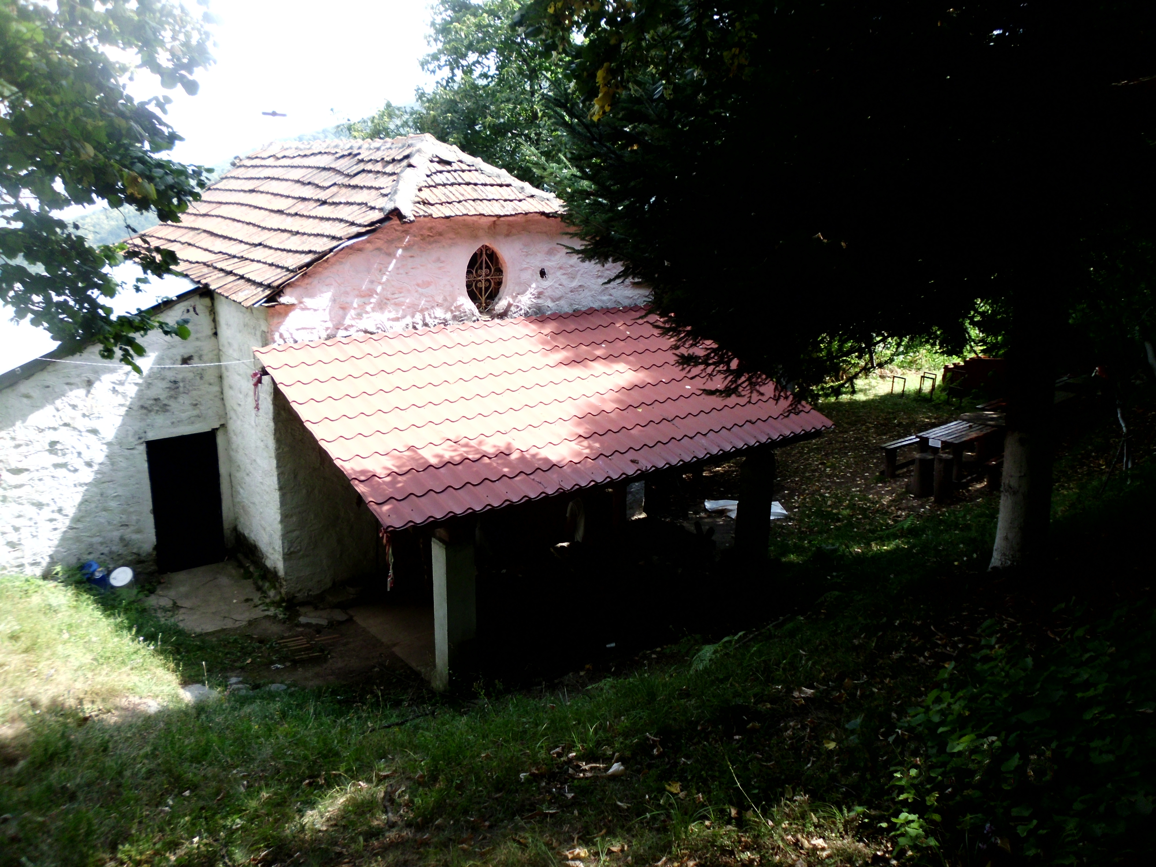 chirch of St. Atanas in Dihovo - Macedonia